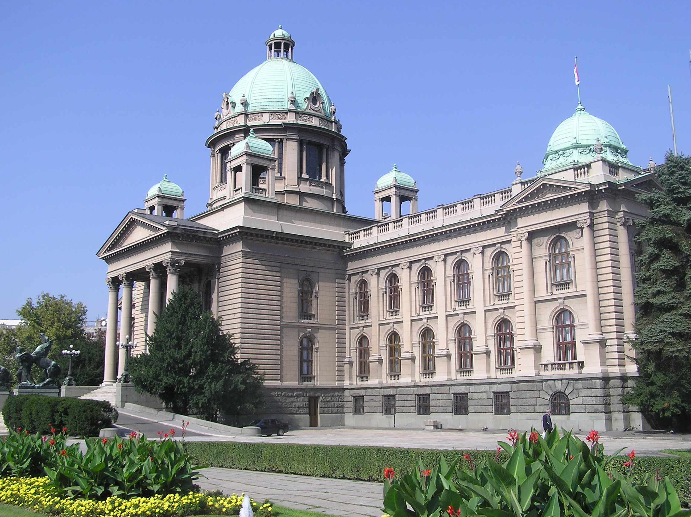 Building of the National Assembly of Serbia in Belgrade